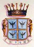 Vizzini,Italy Coat of Arms